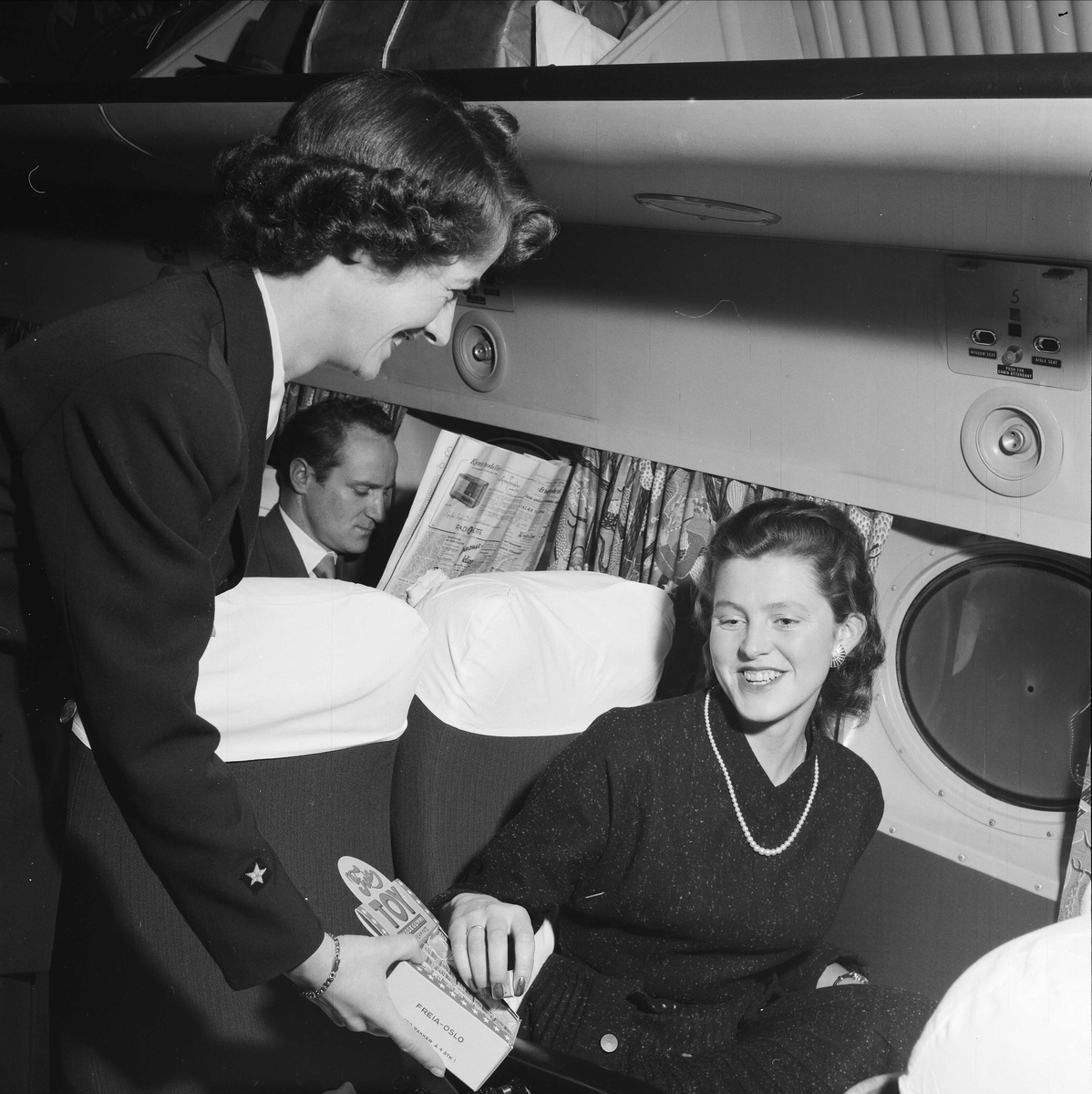 Scandinavian Airlines System (SAS) Douglas DC-4 Dan Viking OY-DFI en route from Oslo Airport, Fornebu to Bodø Airport